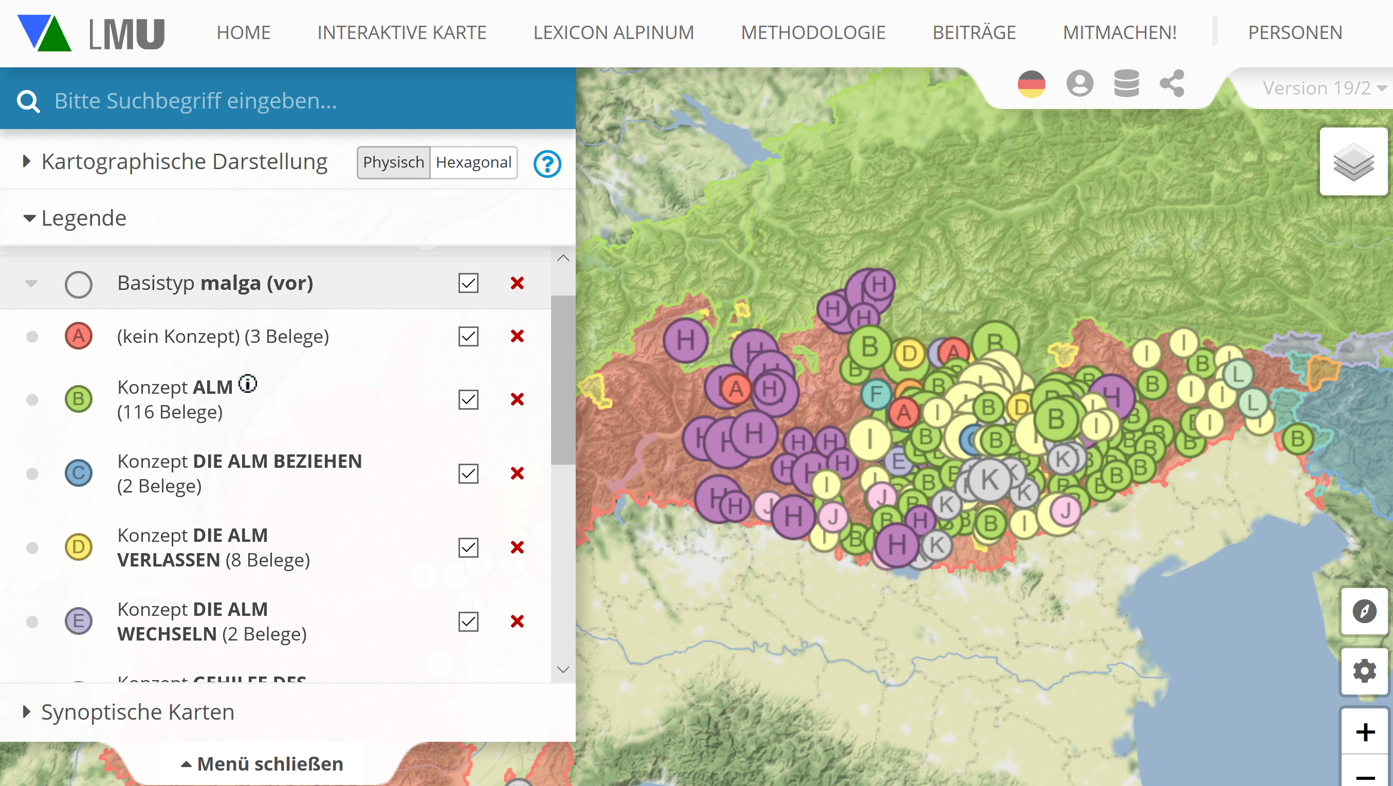 All basic types of 'malga' in the interactive map of Verbaalpina